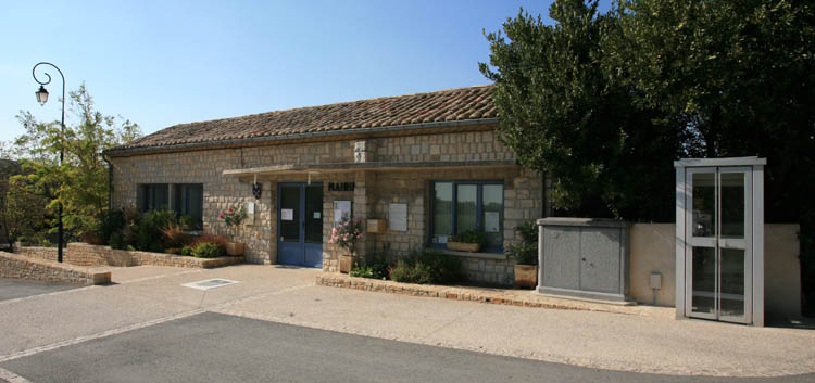 the village of Lagarde-Paréol, Vaucluse, France